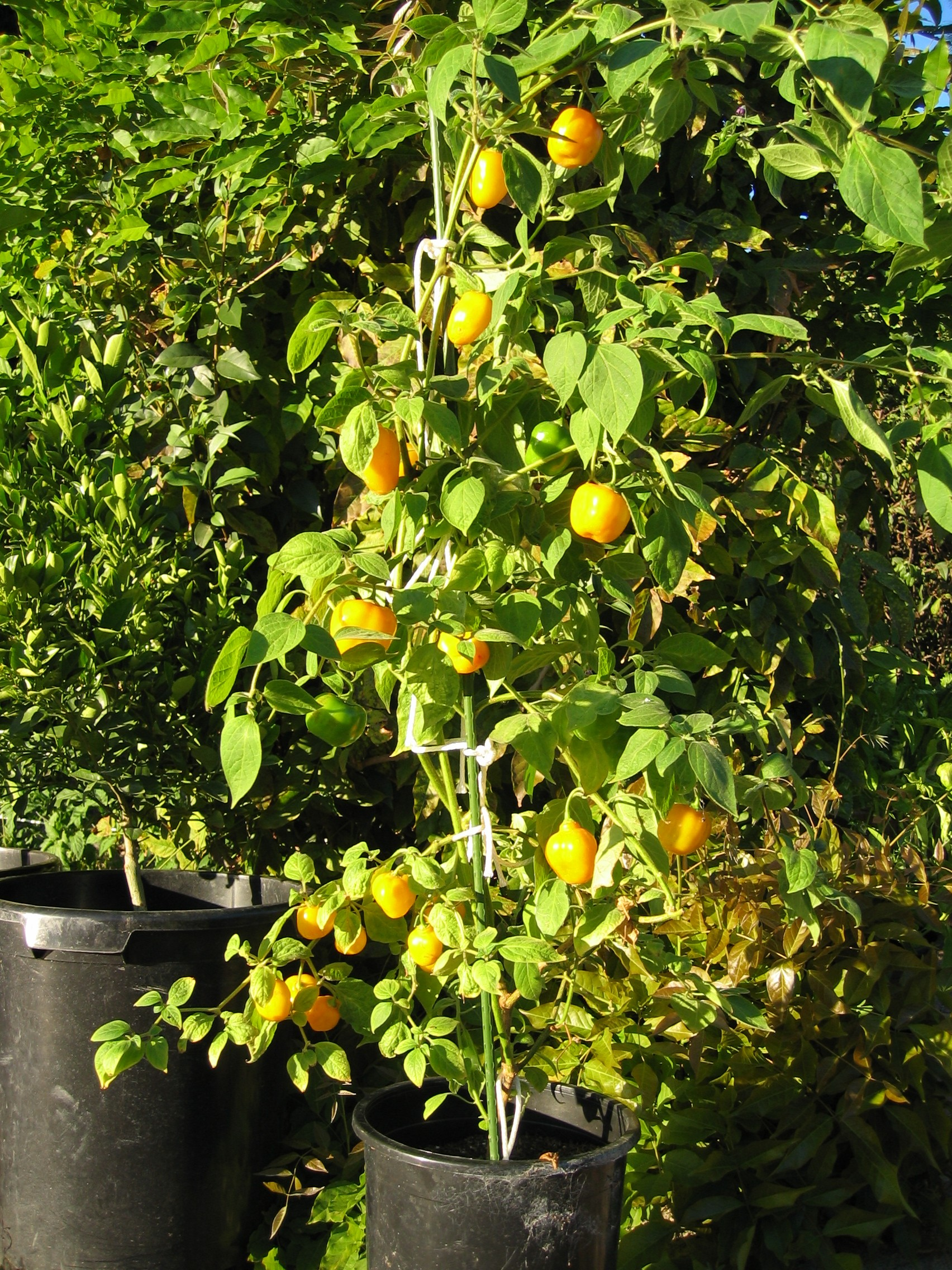 Ripe fruits on a plant of Capsicum pubescens, Rocoto Manzano